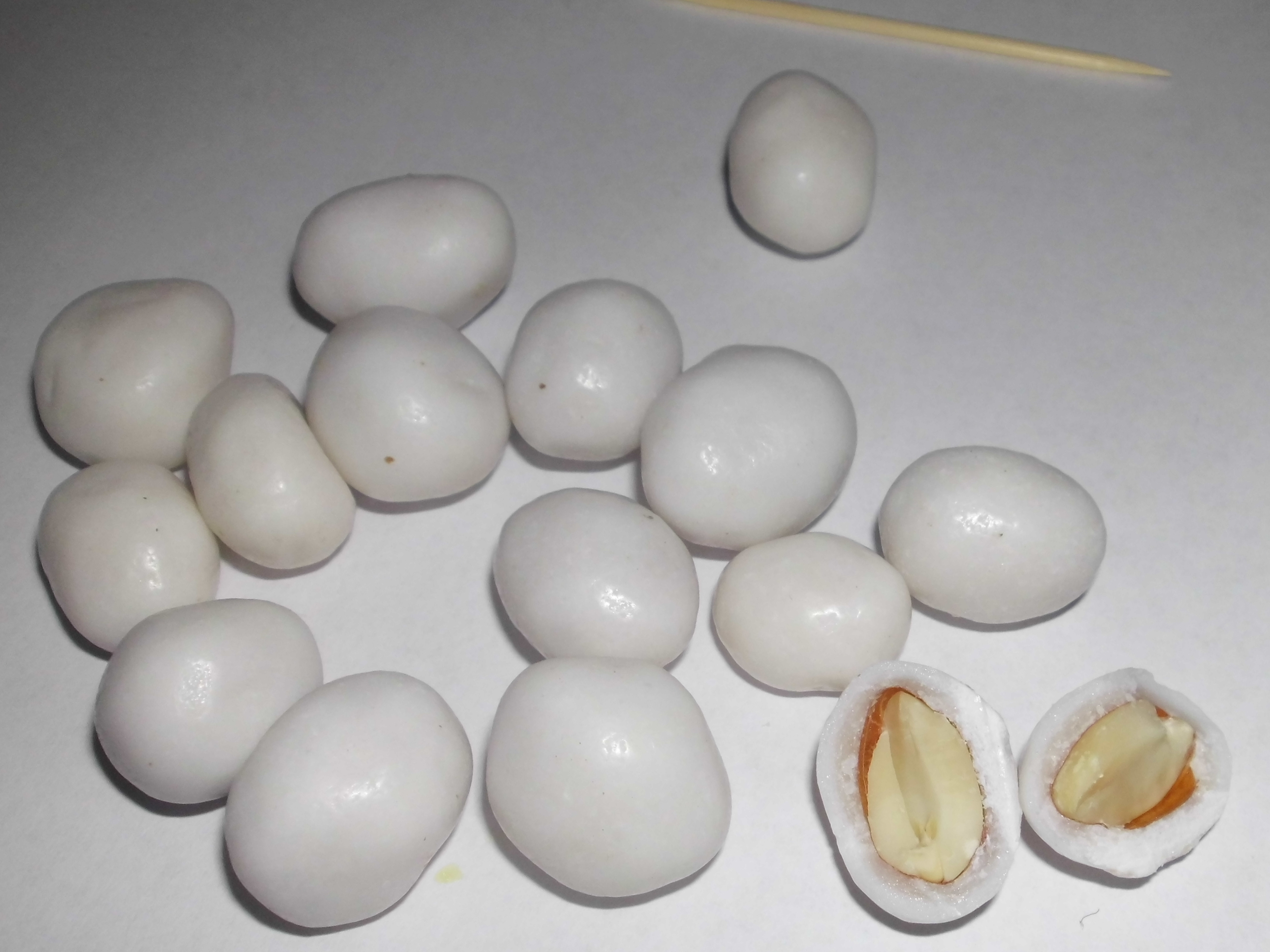 Dragee "Arakhis v sakharnoy glazuri" (peanut in sugar glaze)